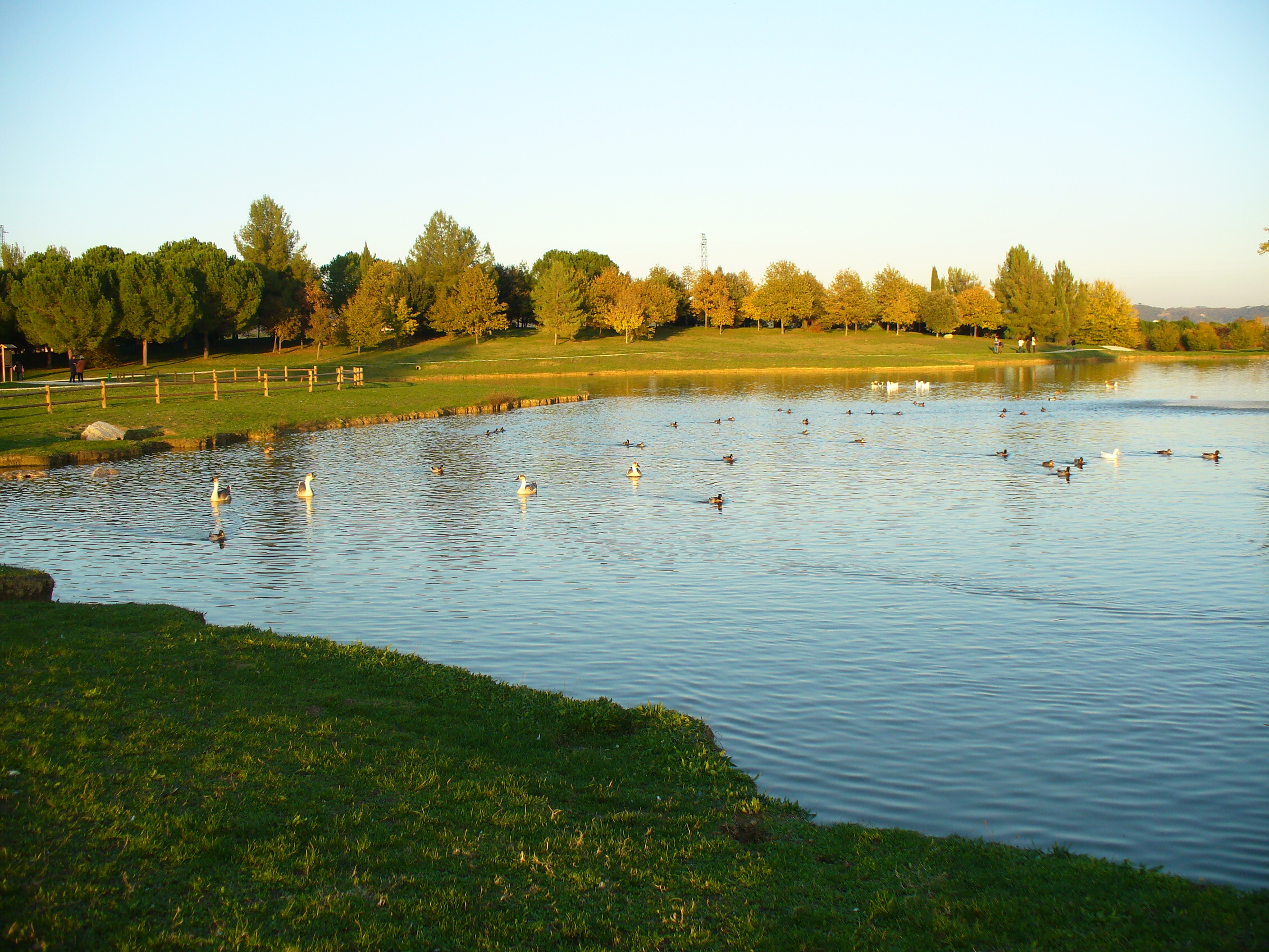 Parco di Serravalle